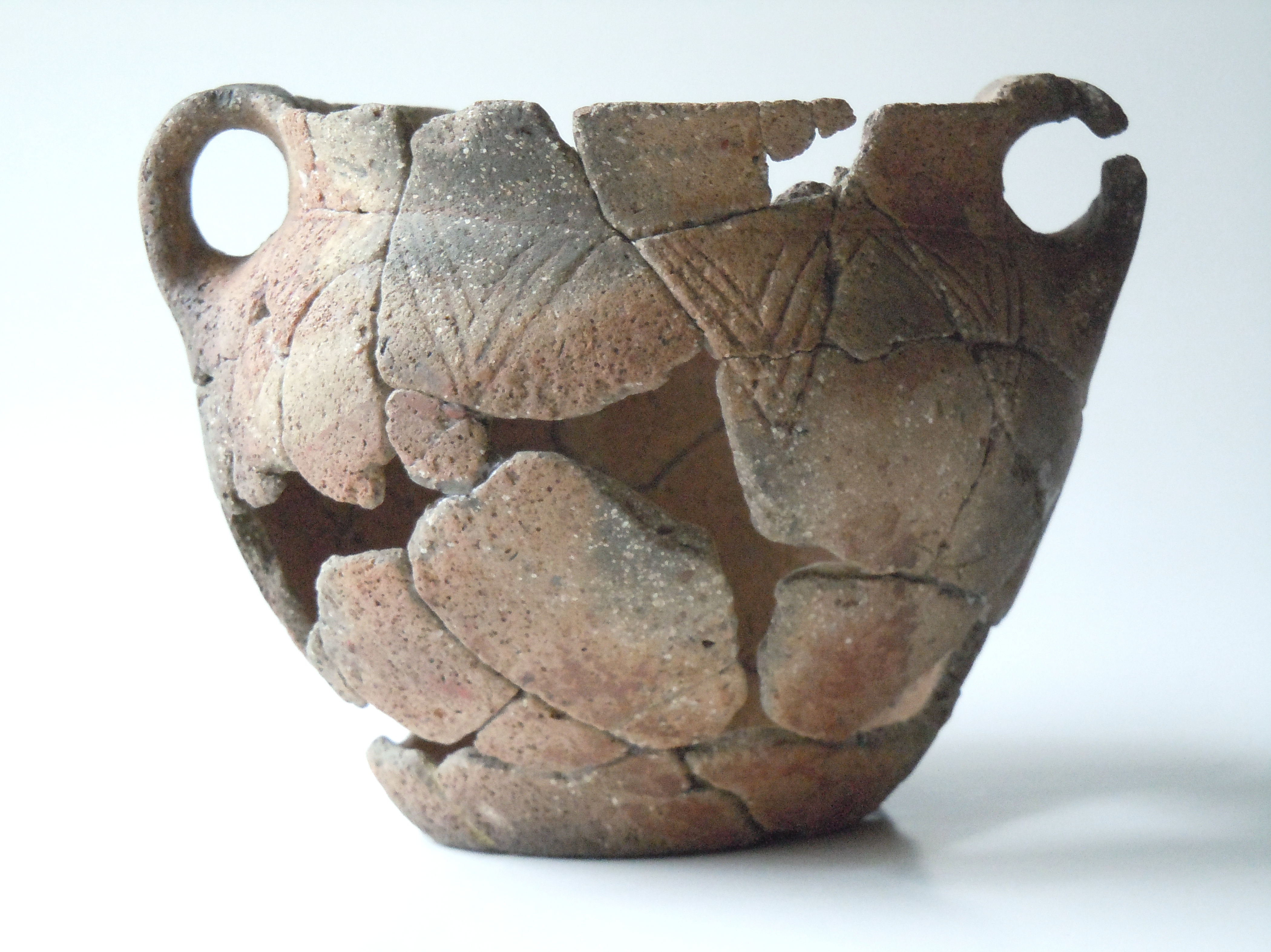 Dolmen Culture pot, Western Caucasus